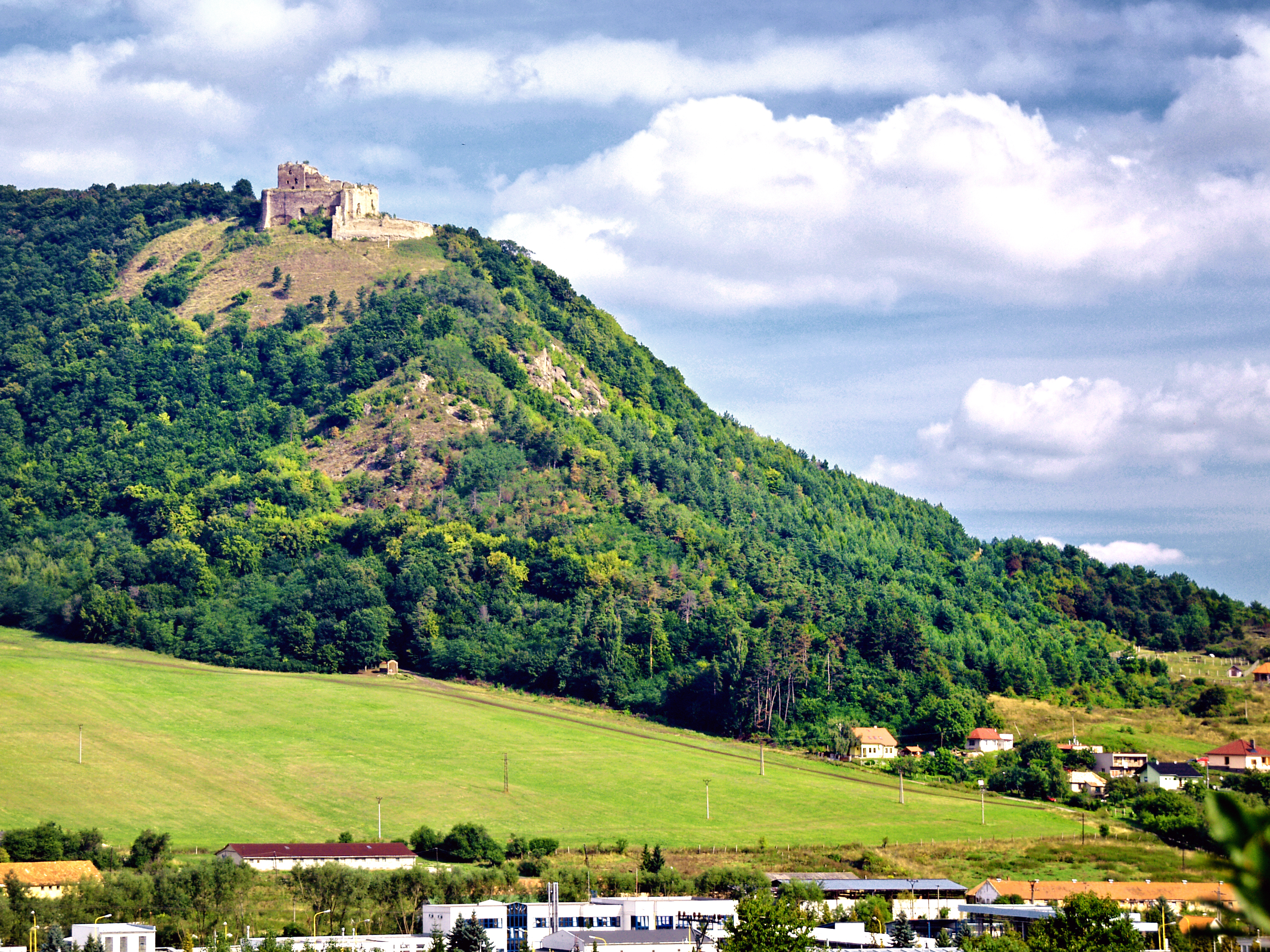 Kapušany Castle and village